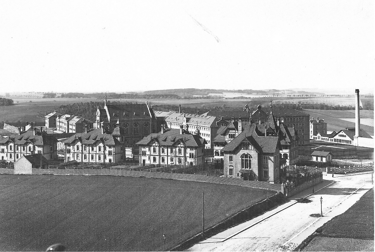 Bautzen; Prison ca. 1904